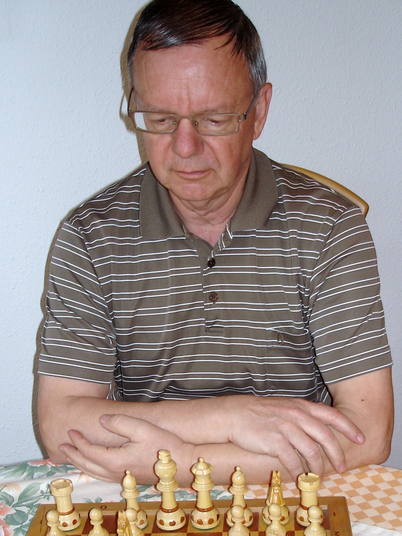 Manfred Schöneberg (born 1946), German chess player and FIDE Master, National Champion of the German Democratic Republic (East Germany) in 1972